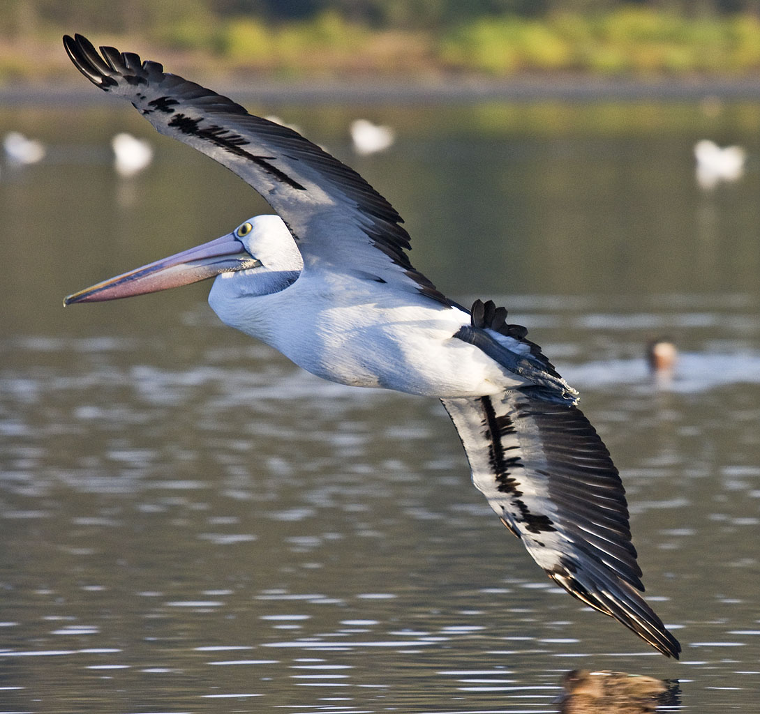 Pelecanus conspicillatus, Bicentenial Park in Wetlands (Homebush Bay, Suburban Sydney Australia)